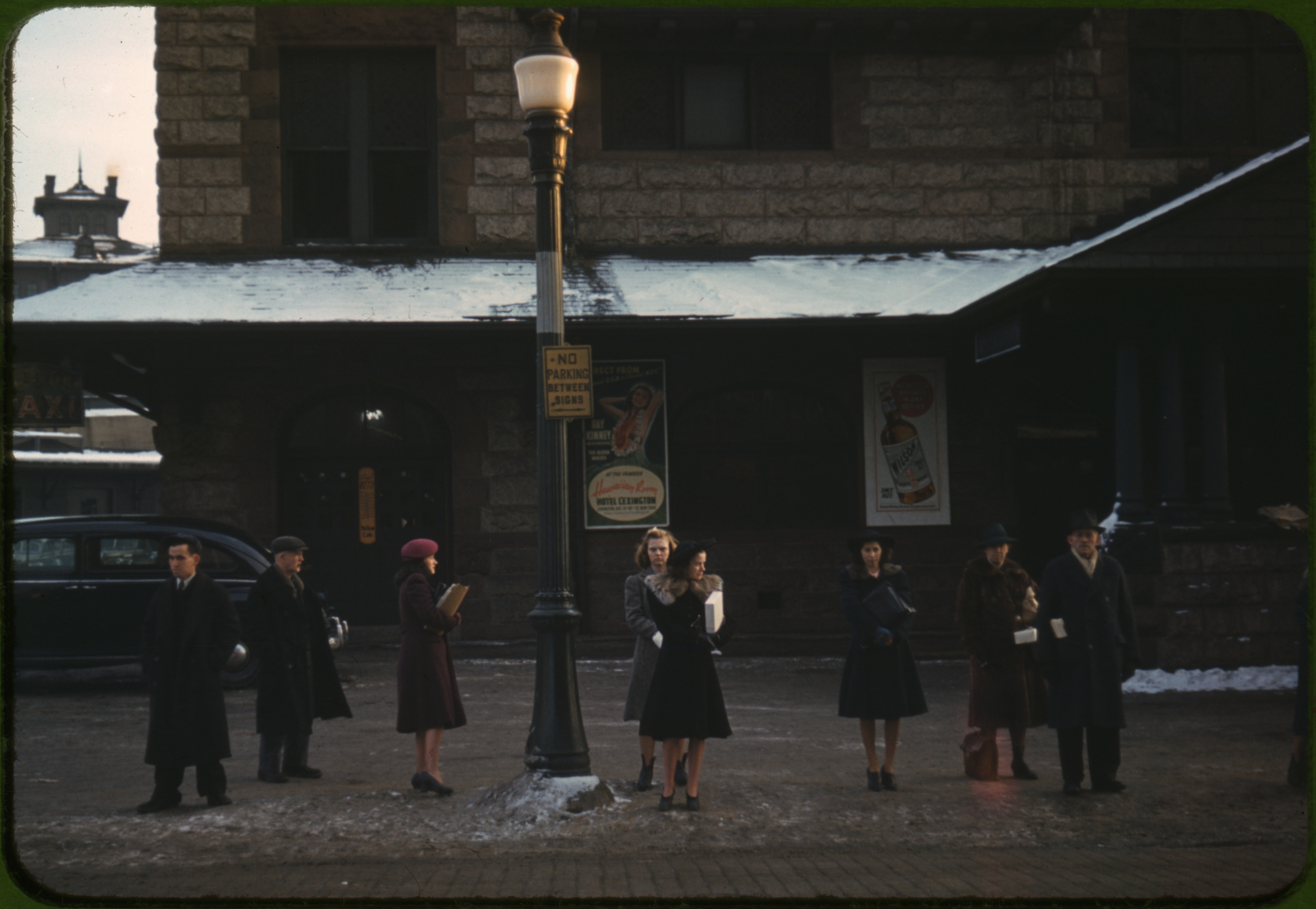 Commuters wait for a bus at Union Station (Middlesex Street station) in Lowell, Massachusetts in January 1941